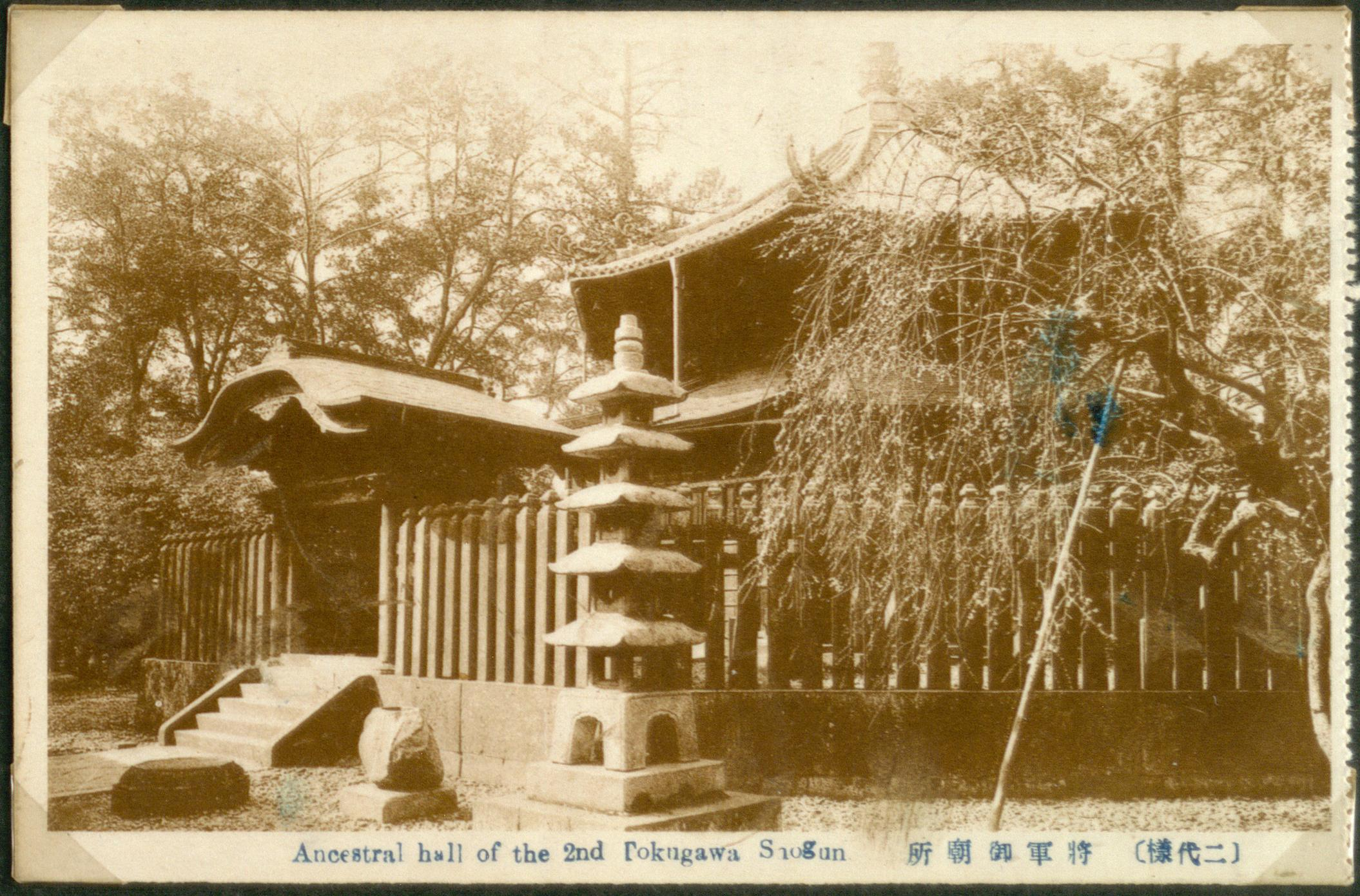 Postcard, which have belonged to Dr Kurt Wulff. No. es_b_00592